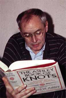 Photo: Robert E. Haraldsen This picture was taken in Stockholm on board the Norwegian author Axel Jensen's ship Shanti Devi in 1983. The Ashley Book of Knots was given wittily to Laing by Jensen as a gift.